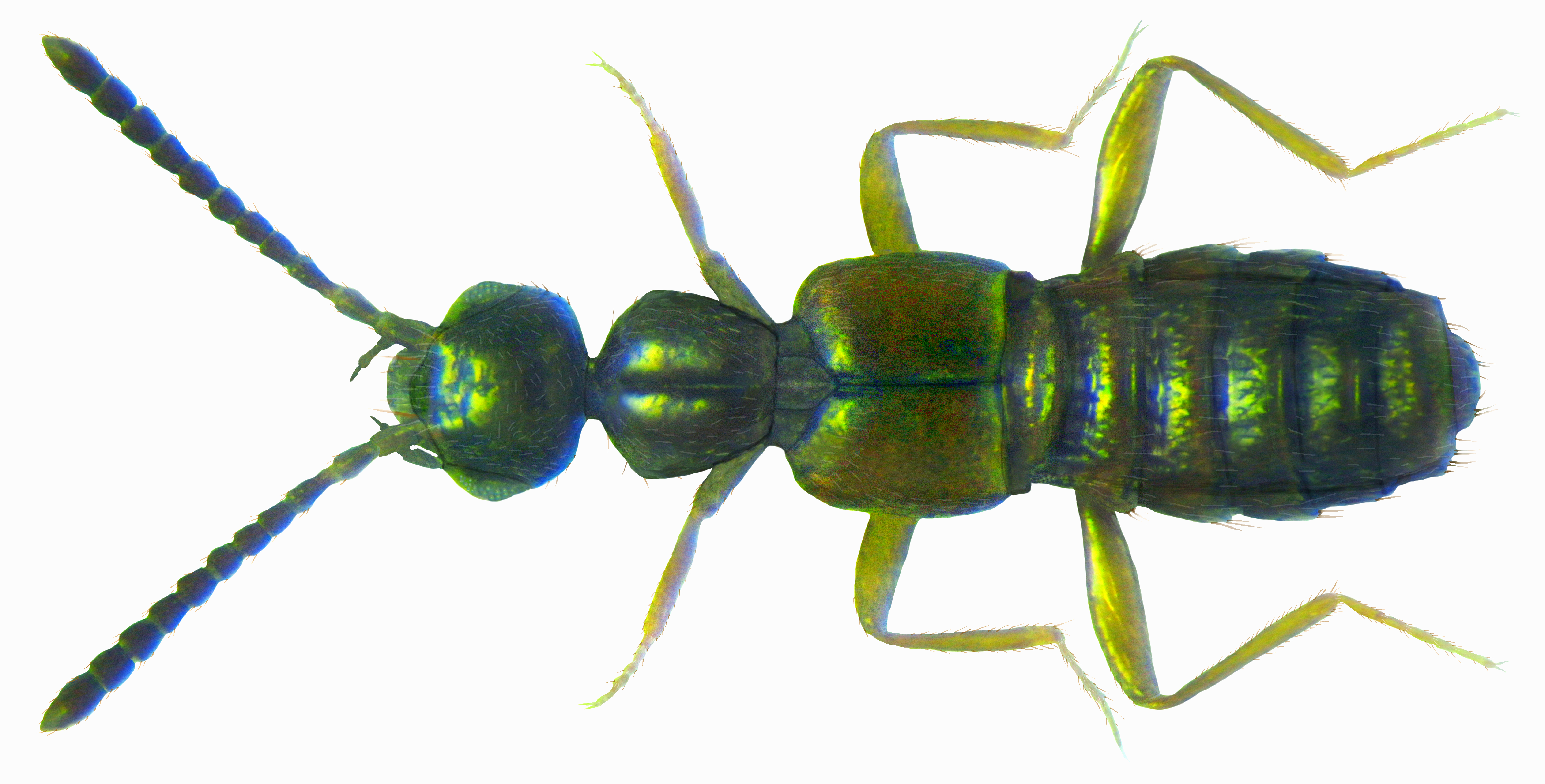 Family: Staphylinidae Size: 1.9 mm Location: Malaysia, Langkawi, Berjaya, cattle dung leg. U.Schmidt, 7.-22.XI 2009; det. R.Pace, 2011 Photo: U.Schmidt, 2012